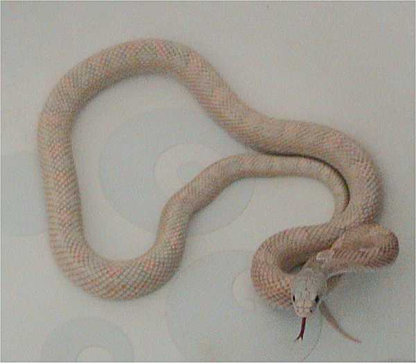 Albino Texas Rat Snake, Pantherophis obsoletus lindheimeri